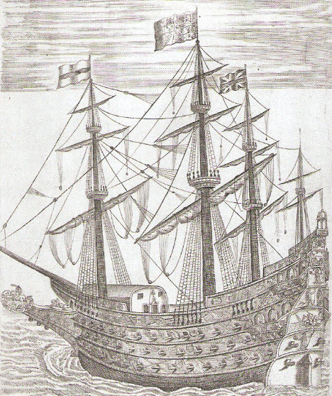 Captain William Rainsborowe's Ship Sovereign of the Seas - 1638